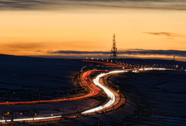 Looking over the M62 motorway towards the transmitter mast on Windy Hill.